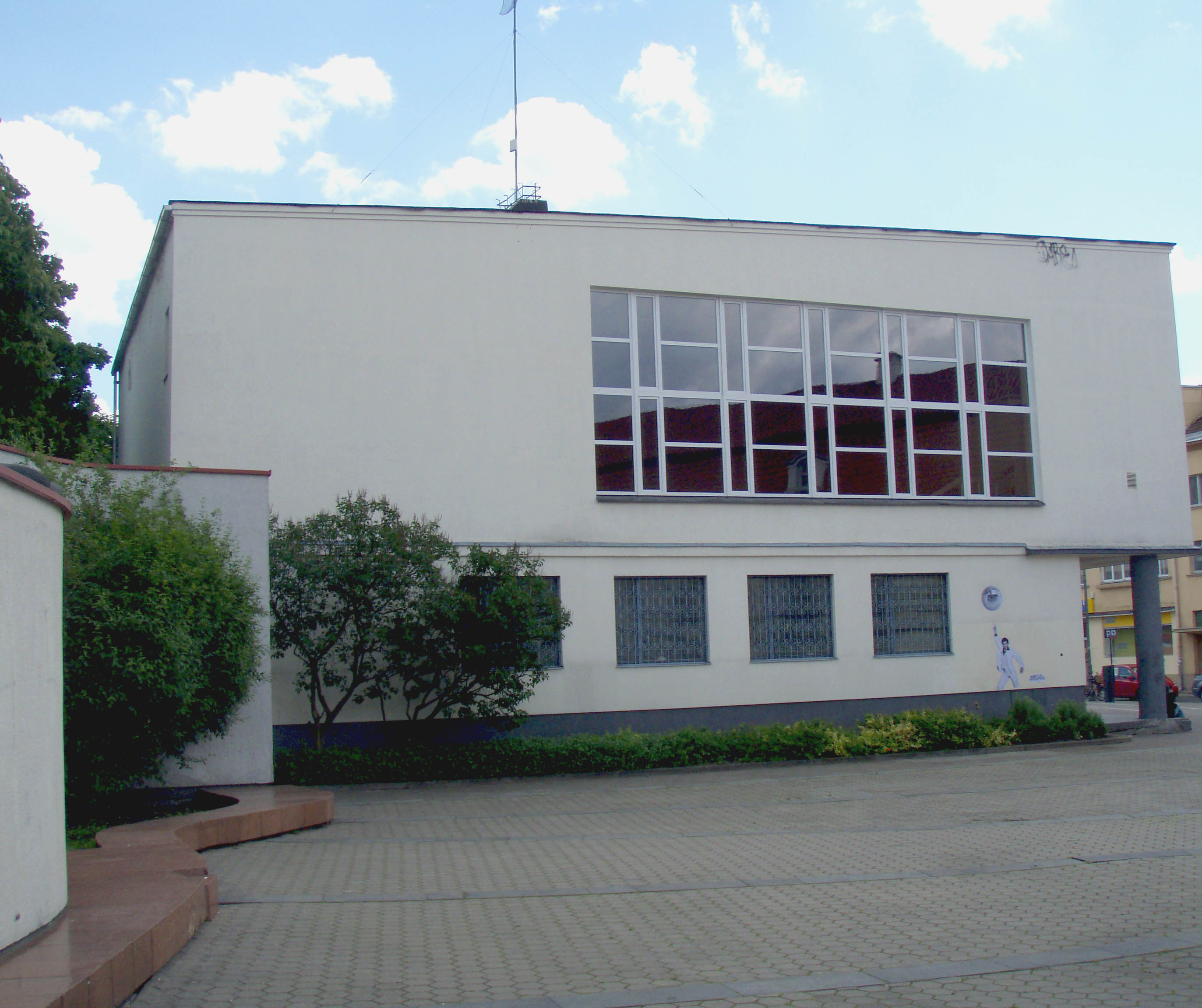 Vilnius Salomėja Nėris gymnasium